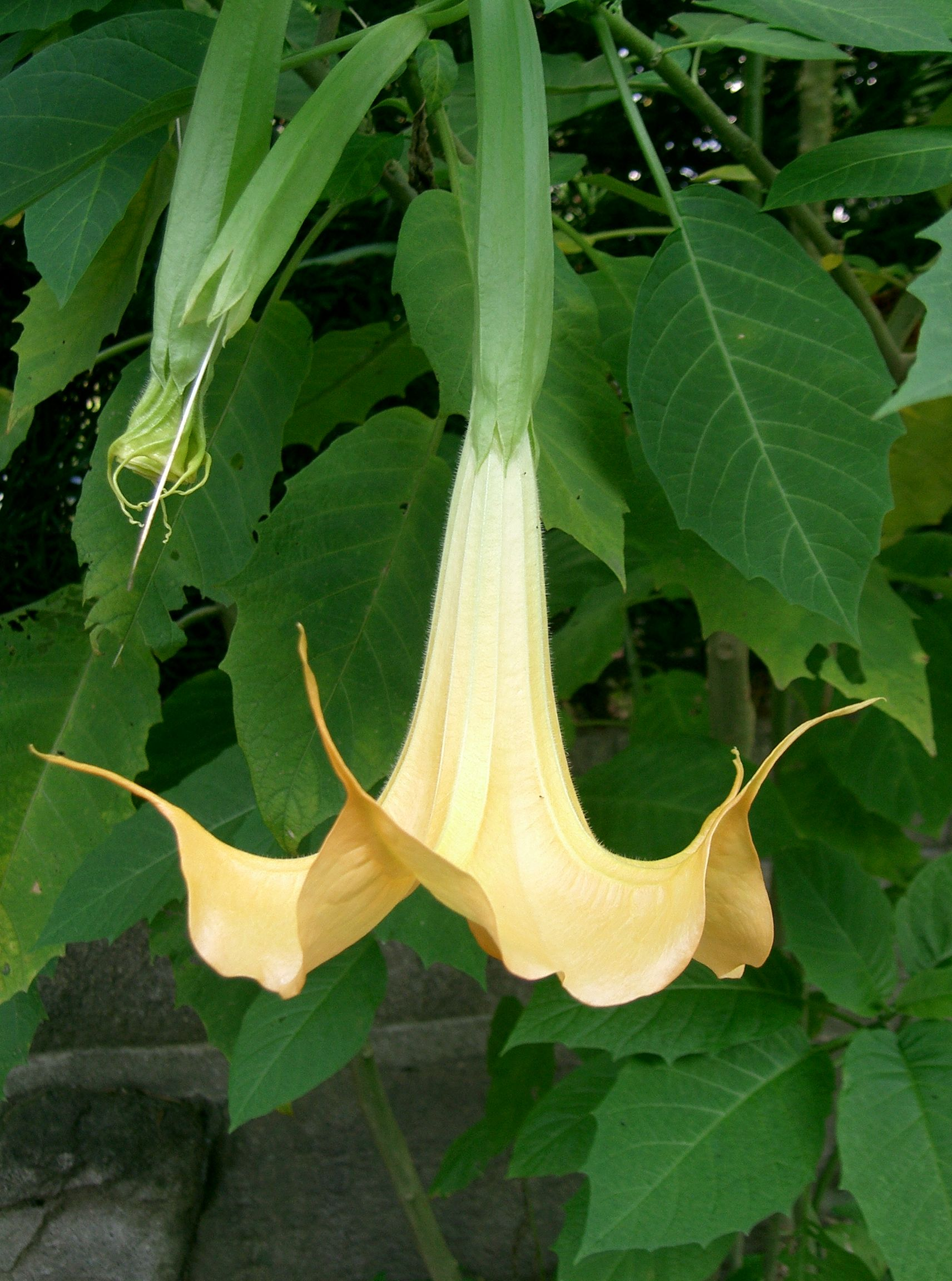 Brugmansia flower